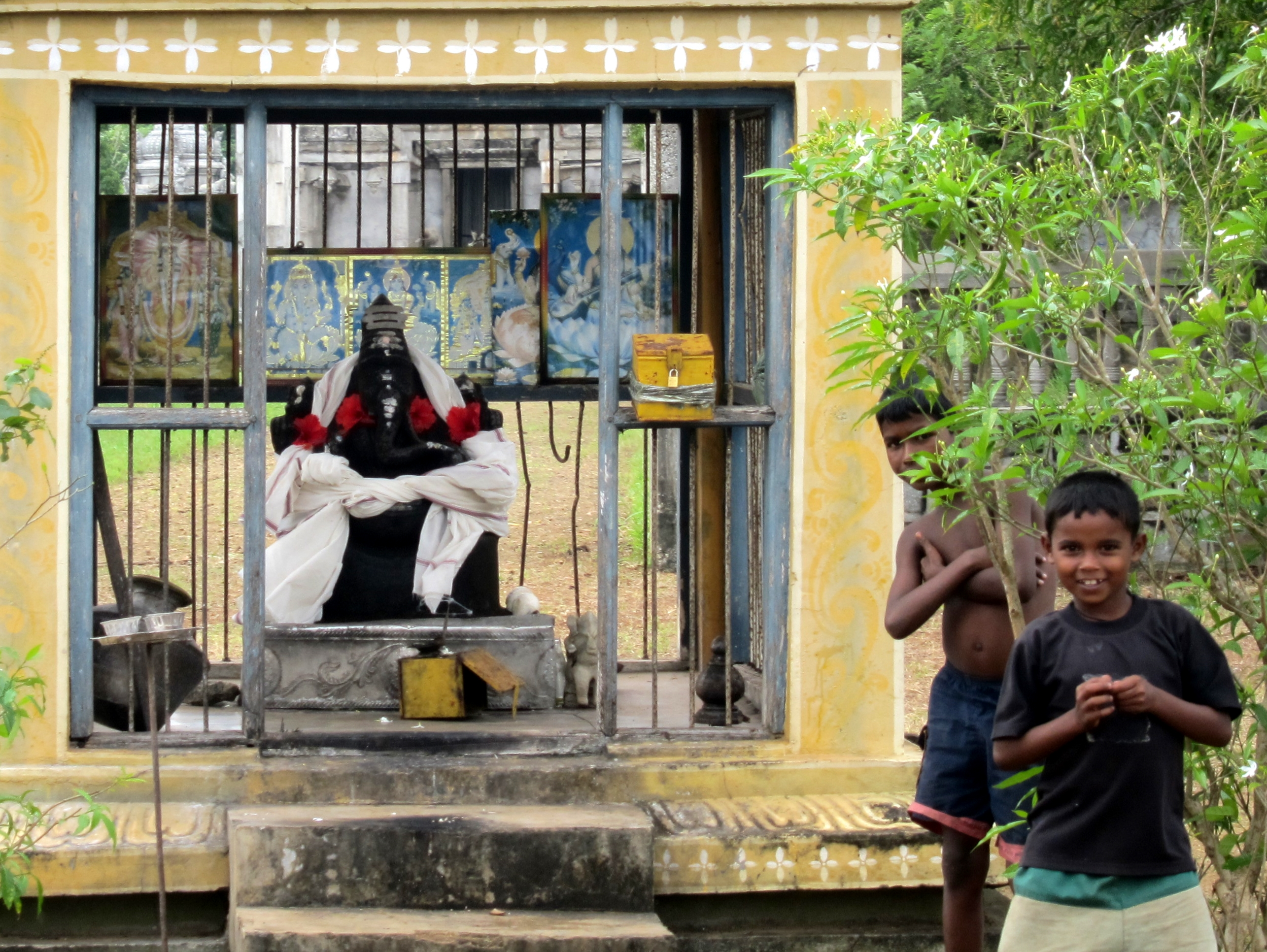 Shiva I think